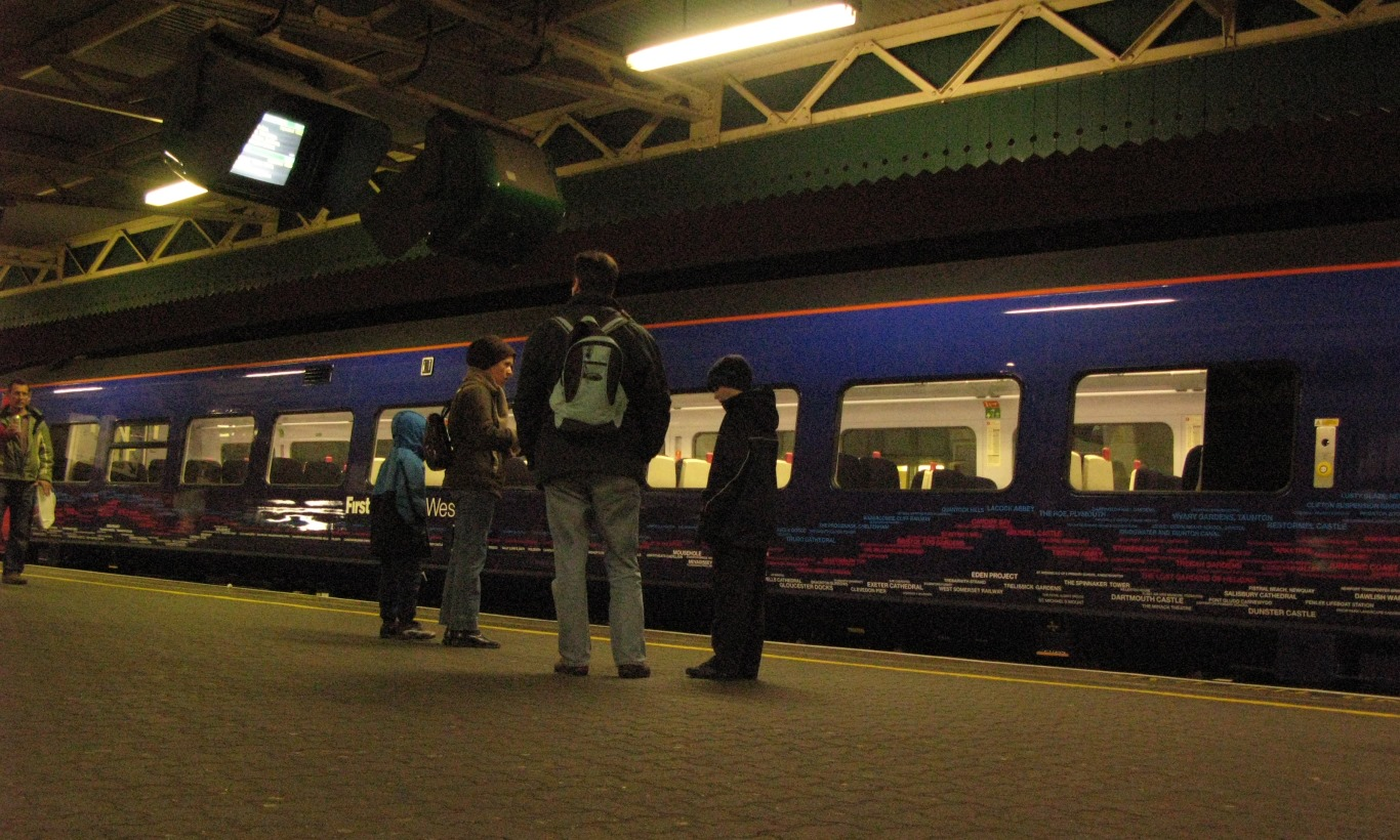 The Customer Information System (CIS) shows train arrivals and departures on Platform 8 at Bristol Temple Meads railway station. The train alongside is First Great Western DMU 158771.